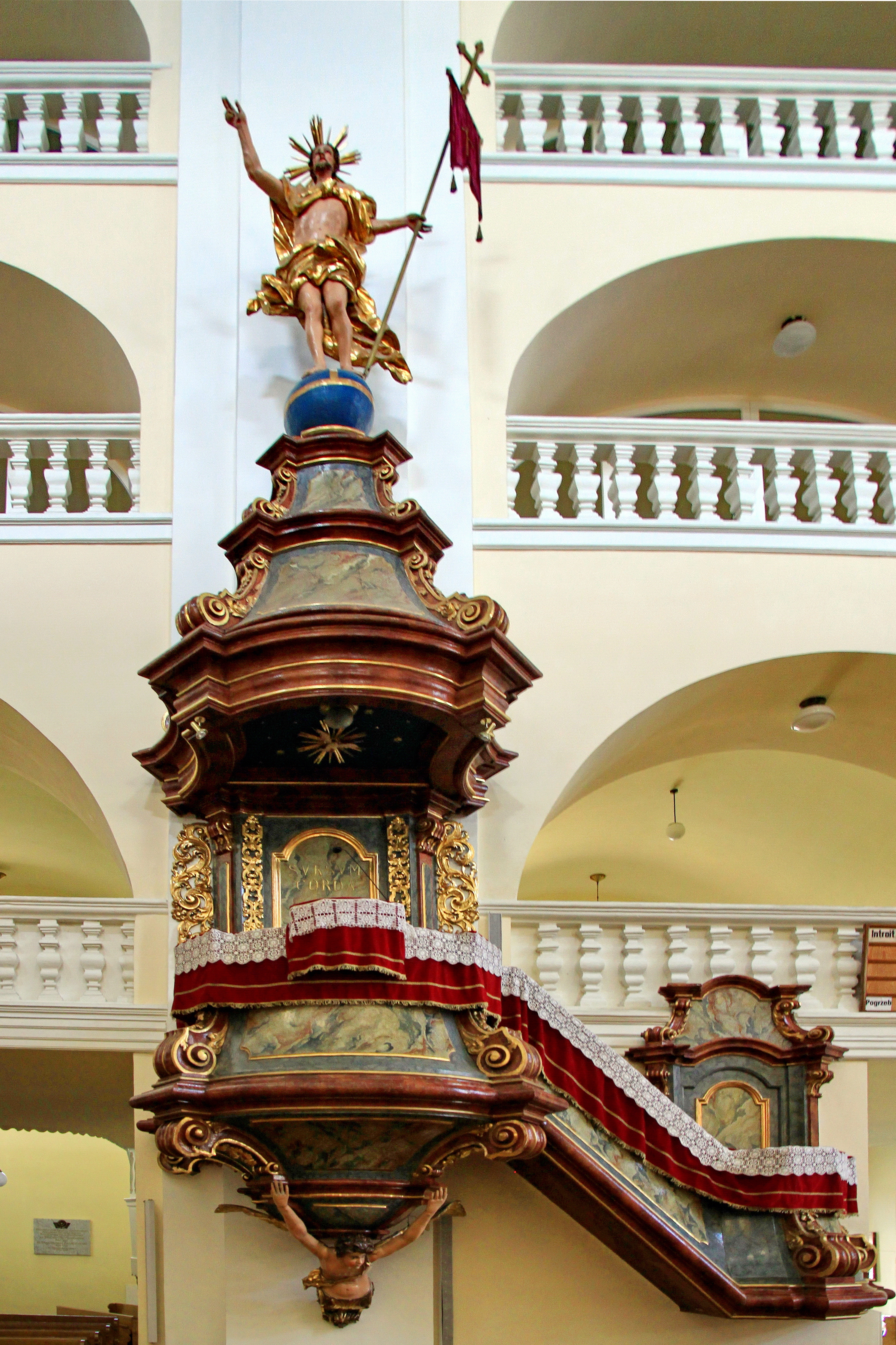 Cieszyn, lutheran Church of Jesus, build in 1709-1750, pulpit